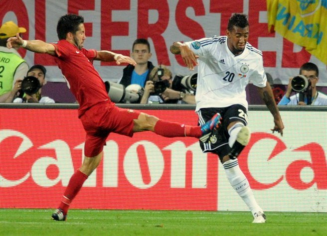 Match between Germany and Portugal during UEFA Euro 2012 that took place in Lviv. Final score was 1:0 (Gómez).